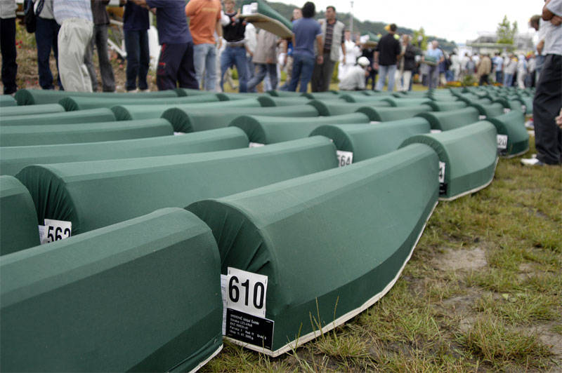 Burial of 610 identified Bosniak civilians on July 11, 2005.